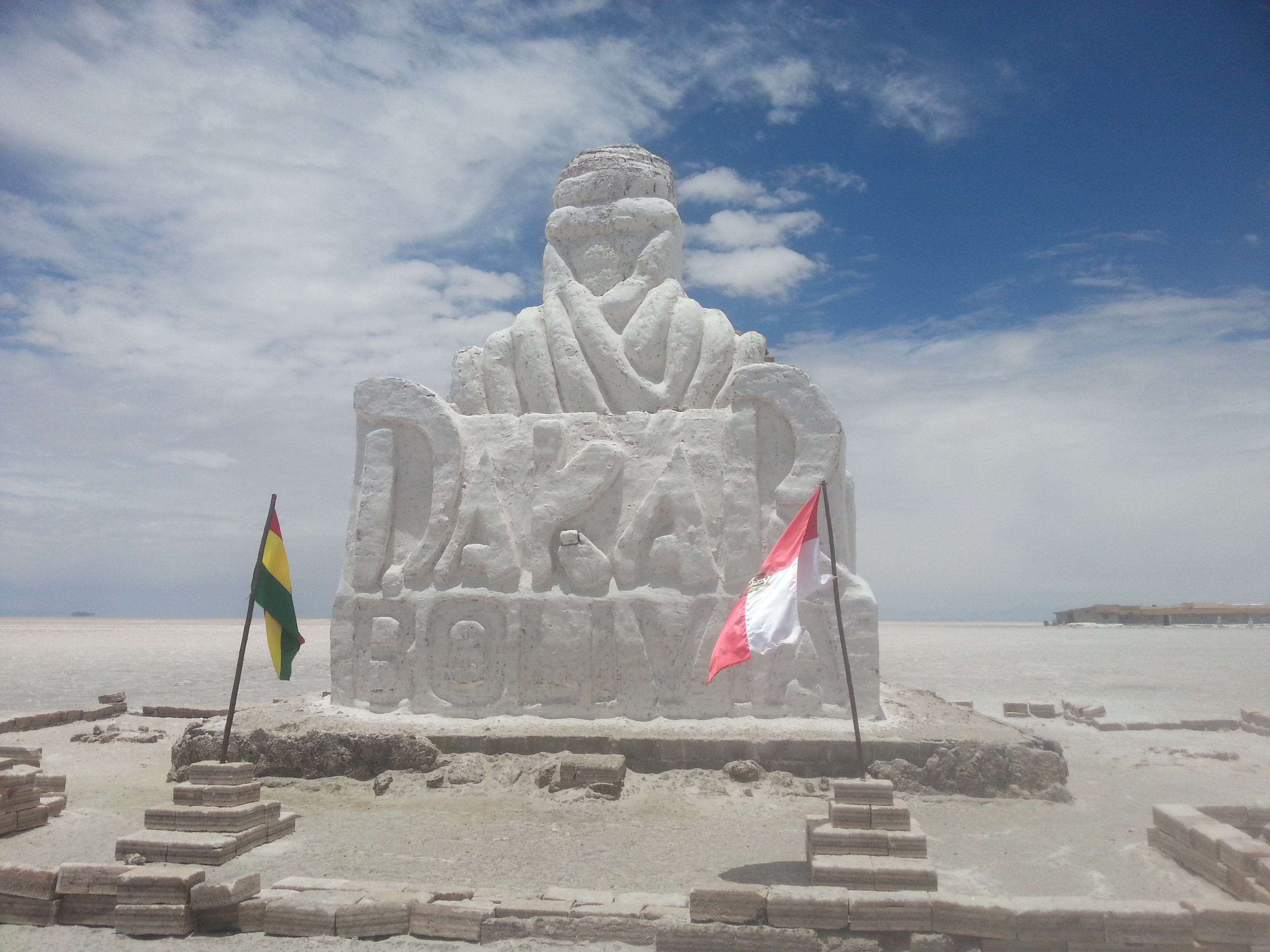 Dakar Rally 2016. Salt statue made in Uyuni, Bolivia.